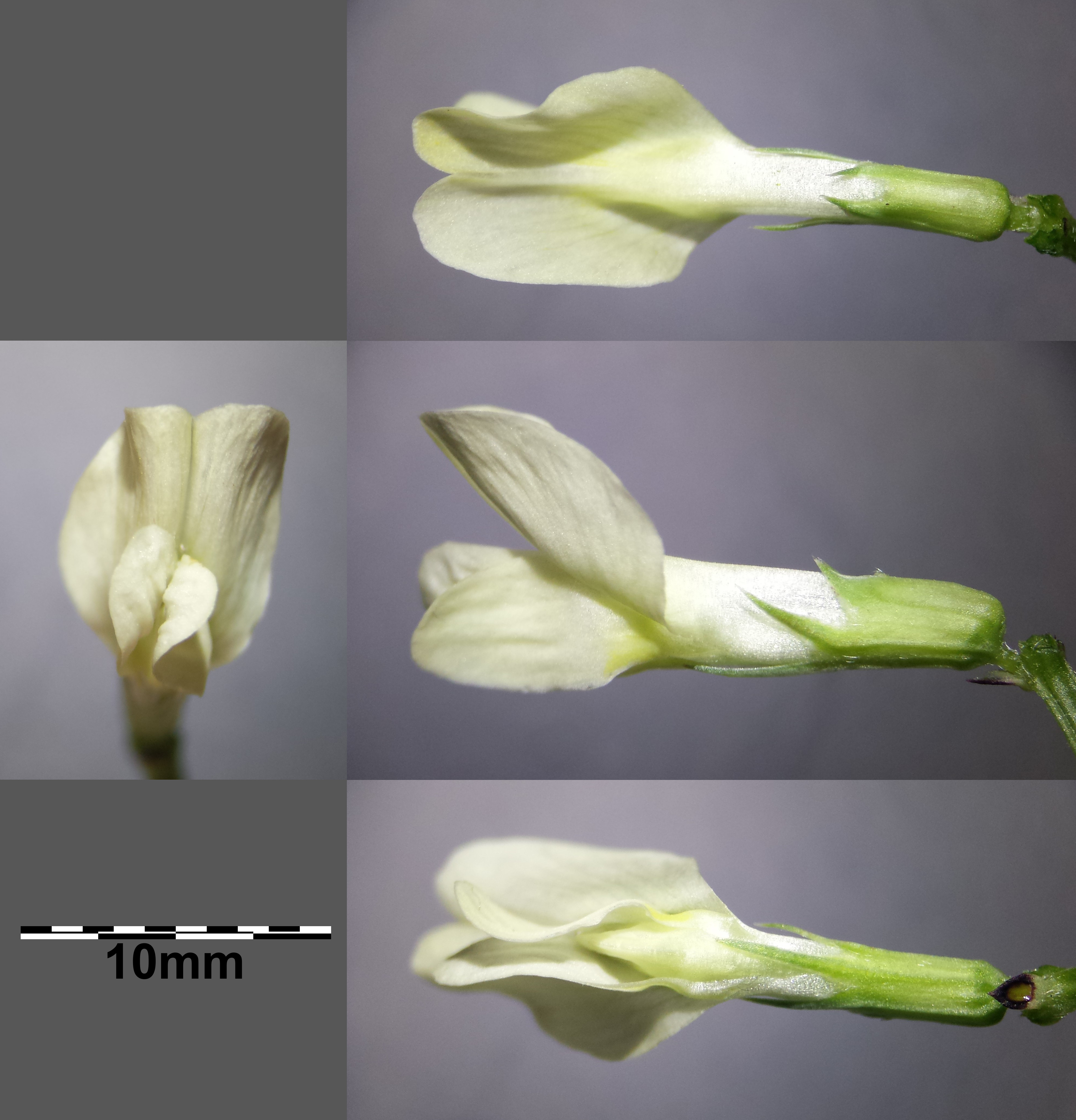 Flower Taxonym: Vicia lutea ss Fischer et al. EfÖLS 2008 ISBN 978-3-85474-187-9 Location: Korneuburg rail station, district Korneuburg, Lower Austria - ca. 170 m a.s.l. Habitat: ruderal meadows